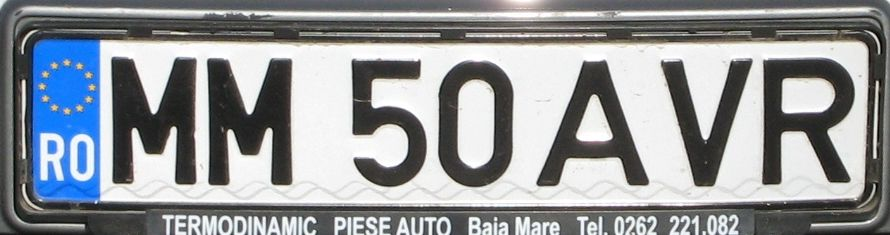 A new Romanian licence plate from Maramures.